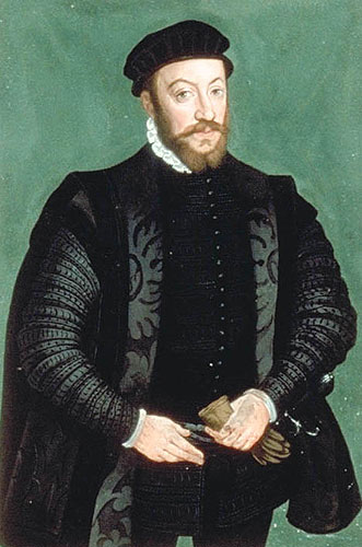 Hieronymus Beck von Leopoldsdorf, Ritter